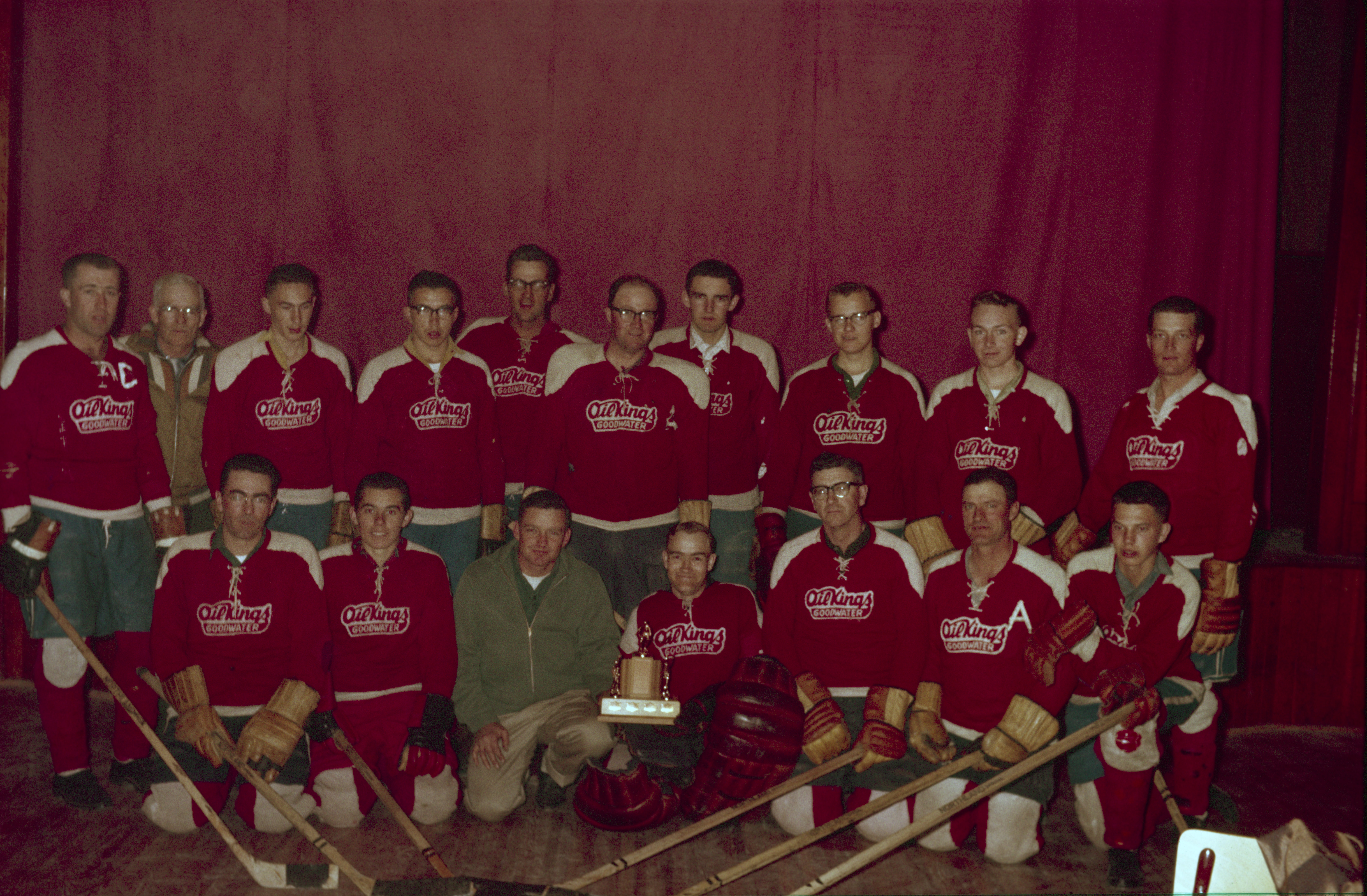 Photograph copyright Walter Thackeray, 1962. Back row (L to R): Max White, Gordon Cooke (in jacket), Barry Lizuck, Dennis Lizuck, Brian Williams, Gerald Alexander, Dick Johnson, Wayne Johnston, Hugh Allen, Graham Thackeray. Front row (L to R): Don Cooke, Roy Mokelki, Norman "Nob" Jordan (in jacket), Mr. Carrole, Don Alexander, George Rose, Larry Makelki.